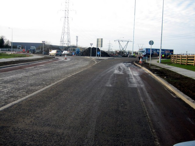 Damastown Avenue, near to Mulhurddart, Whitestown, Phibblestown and Clonee, Dublin, Ireland. New roads and roundabout under construction. Local sign says Damastown Way but shown on OS map, 6th edition of City Atlas, as Damastown Avenue.